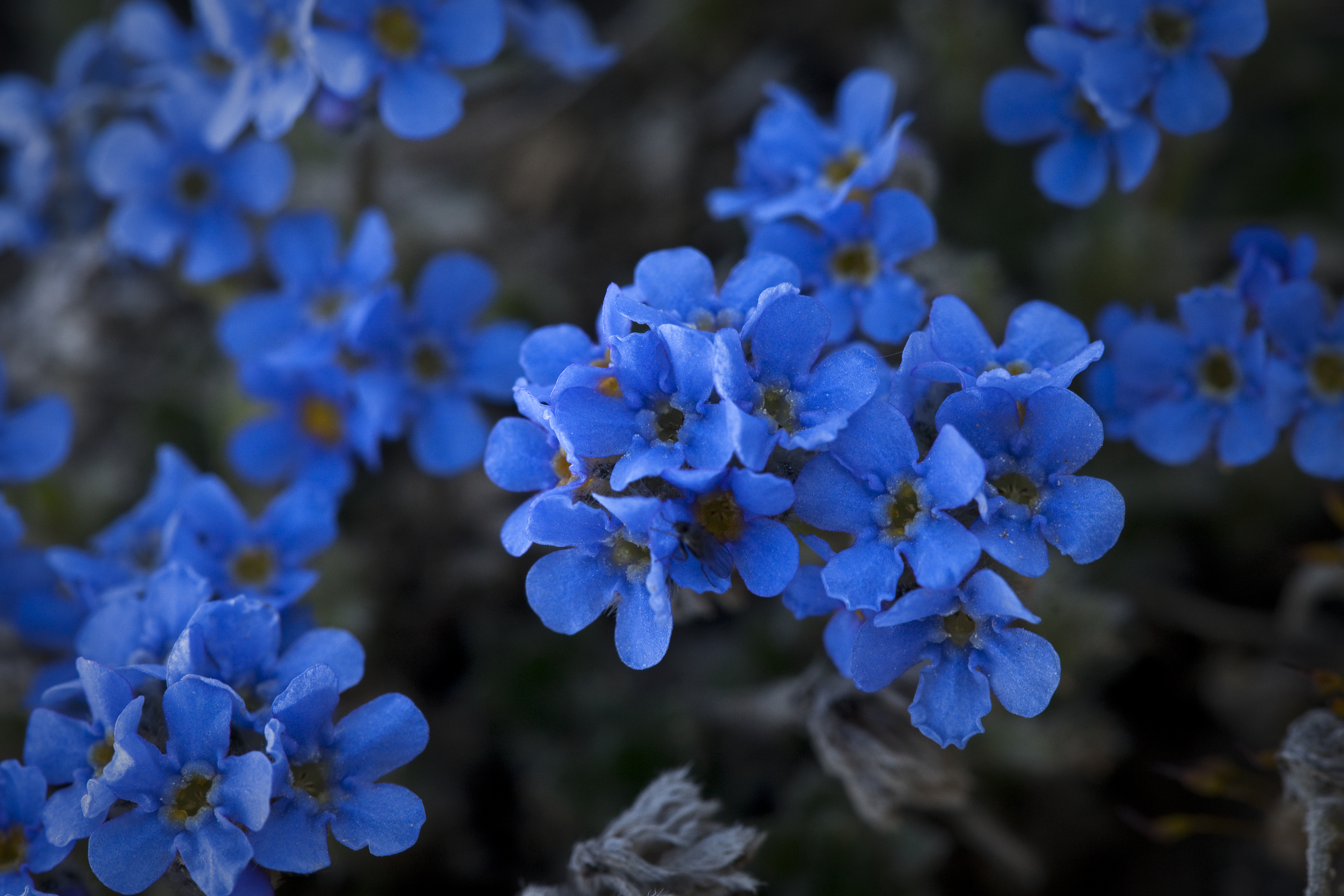 Eritrichium nanum var. aretioides, Denali National Park and Preserve, AK, USA